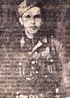 Jože Kadunc-Ibar (1925-1944), Slovene partisan